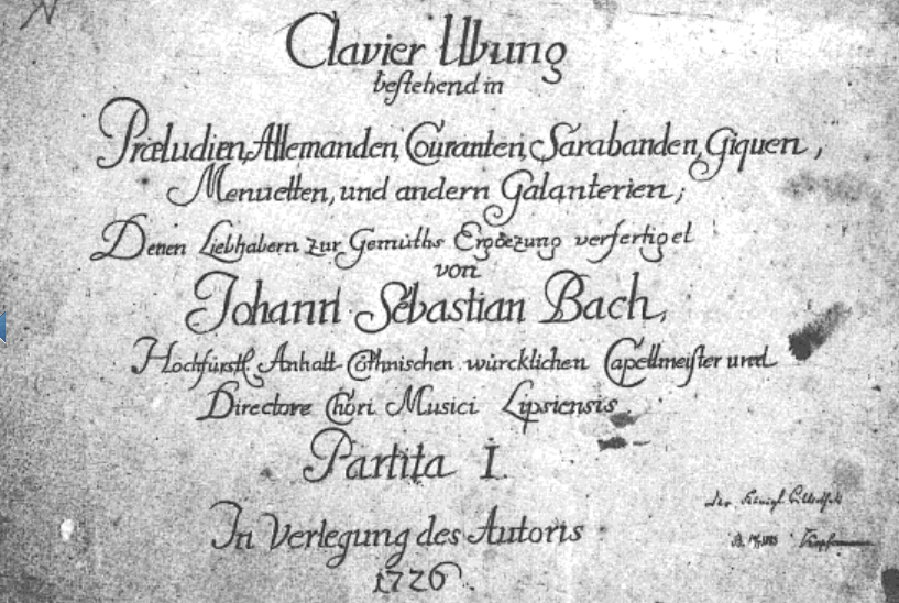 Title page of Partita 1 from the first part of J.S. Bach's Clavier-Übung, printed by Balthasar Schmid in 1726